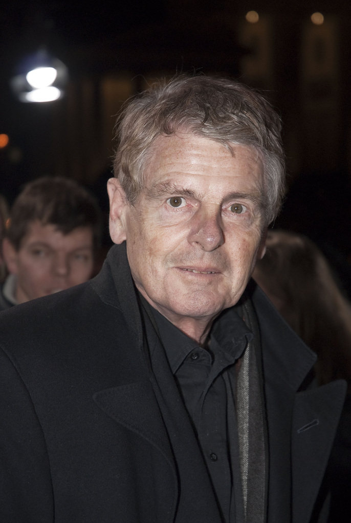 Klaus Bresser, German journalist, former commissioning editor of TV station ZDF Volkswagen People’s Night 2008